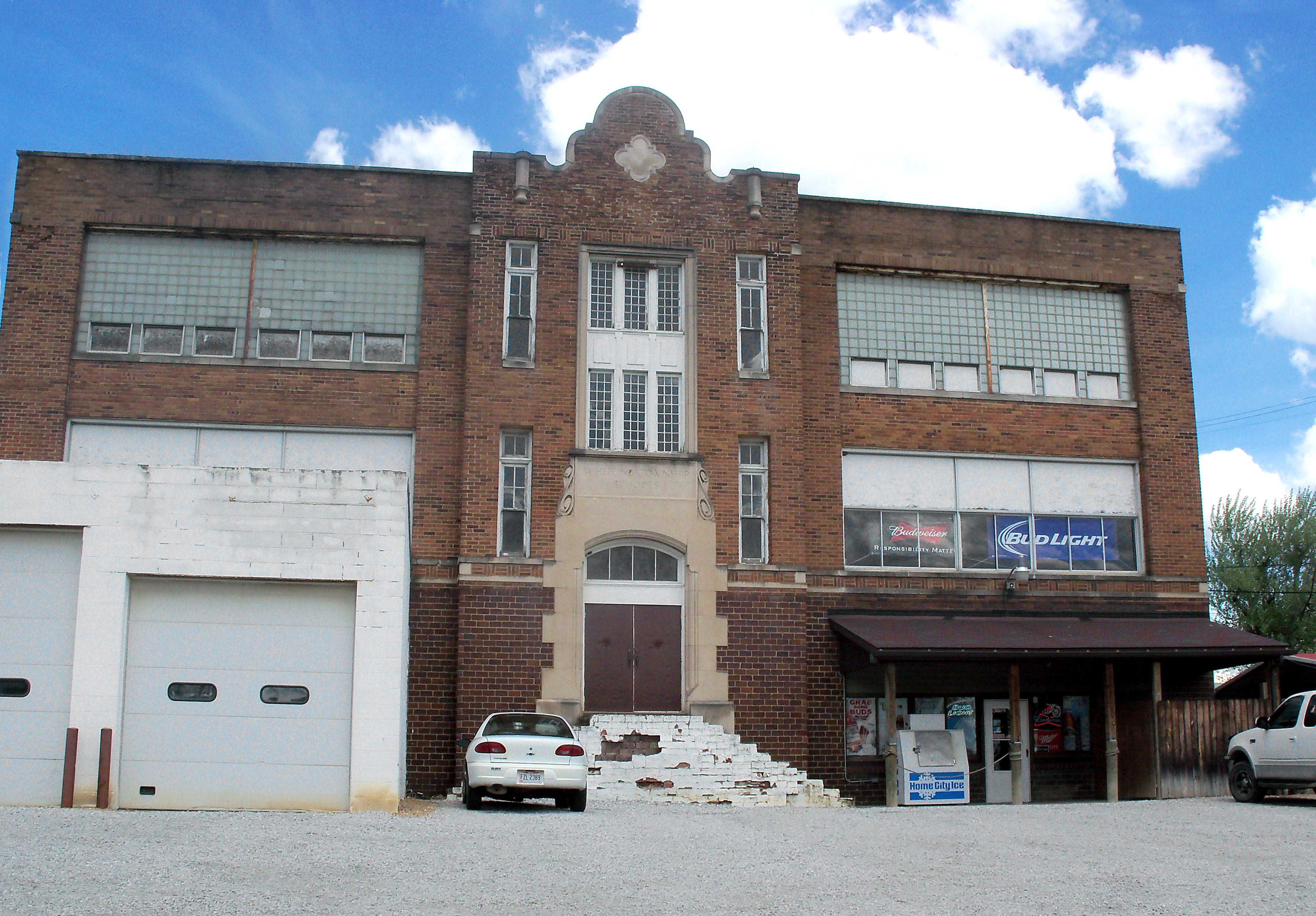 Wheeling Township, Belmont County, Ohio School, now a grocery store, in Fairpoint, Ohio